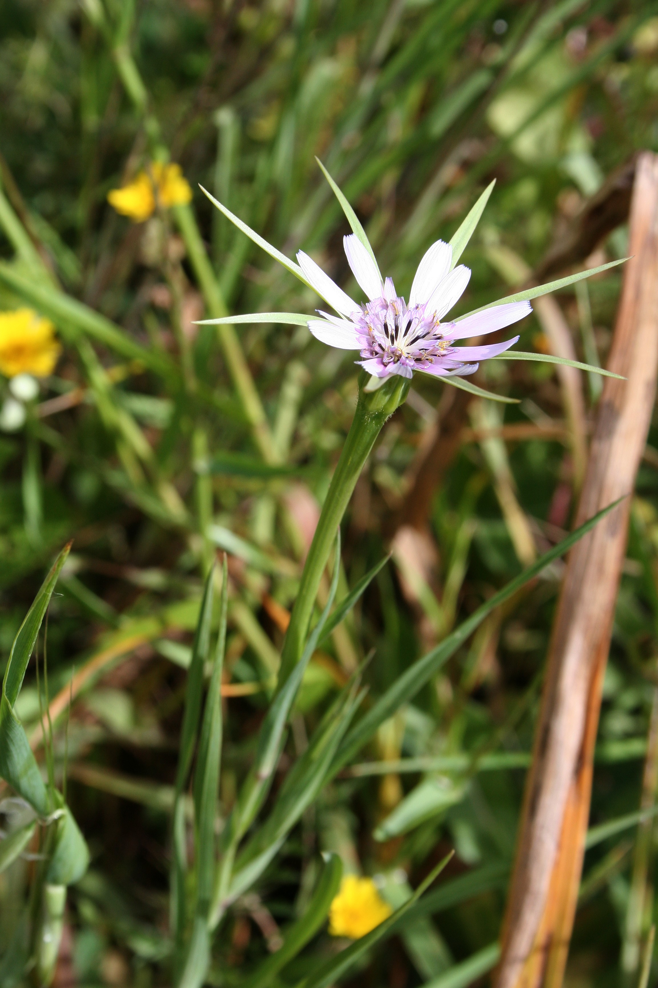 Tragopogon_hybridus